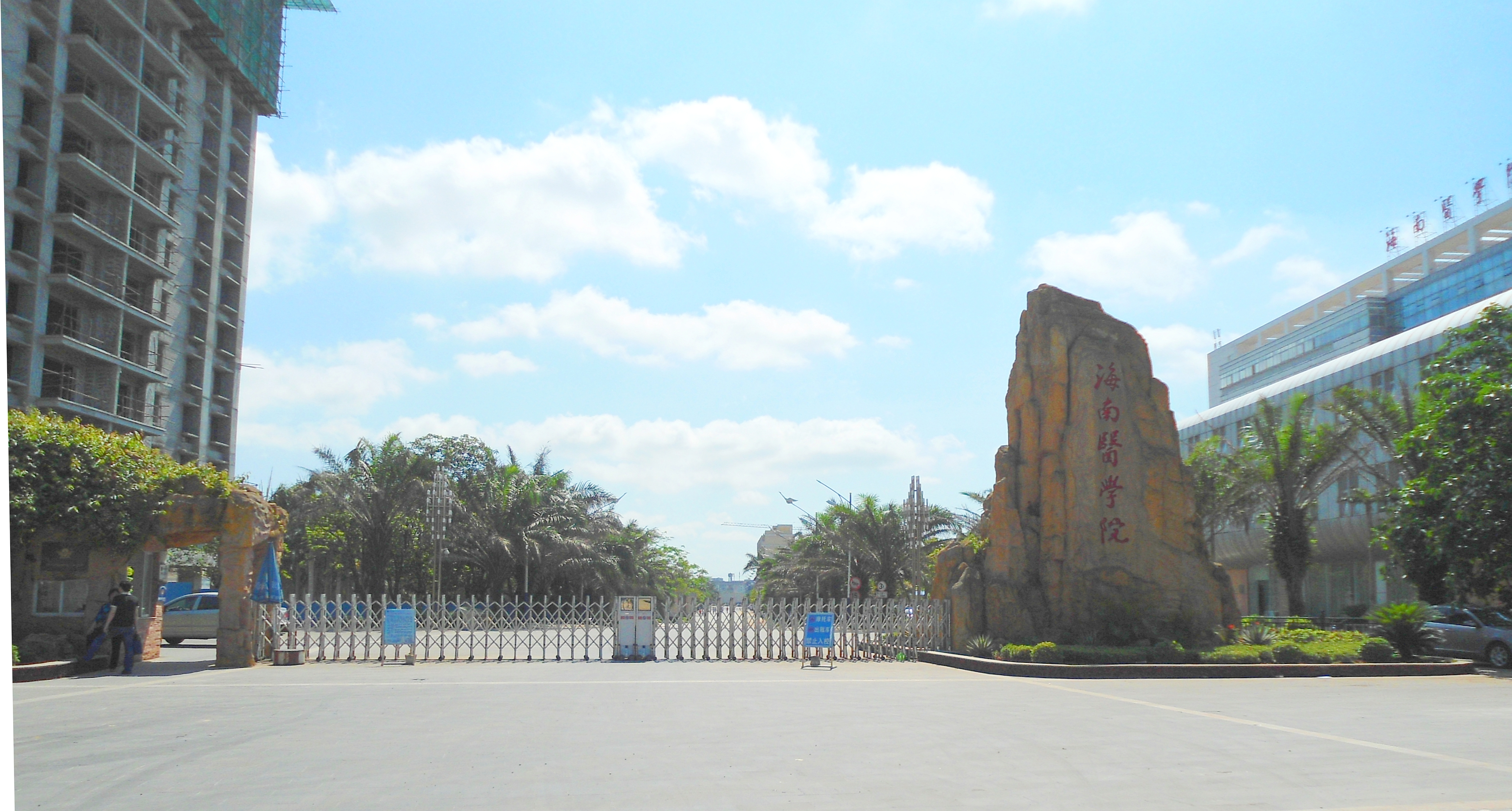 Hainan Medical College, Haikou City, Hainan Province, China.